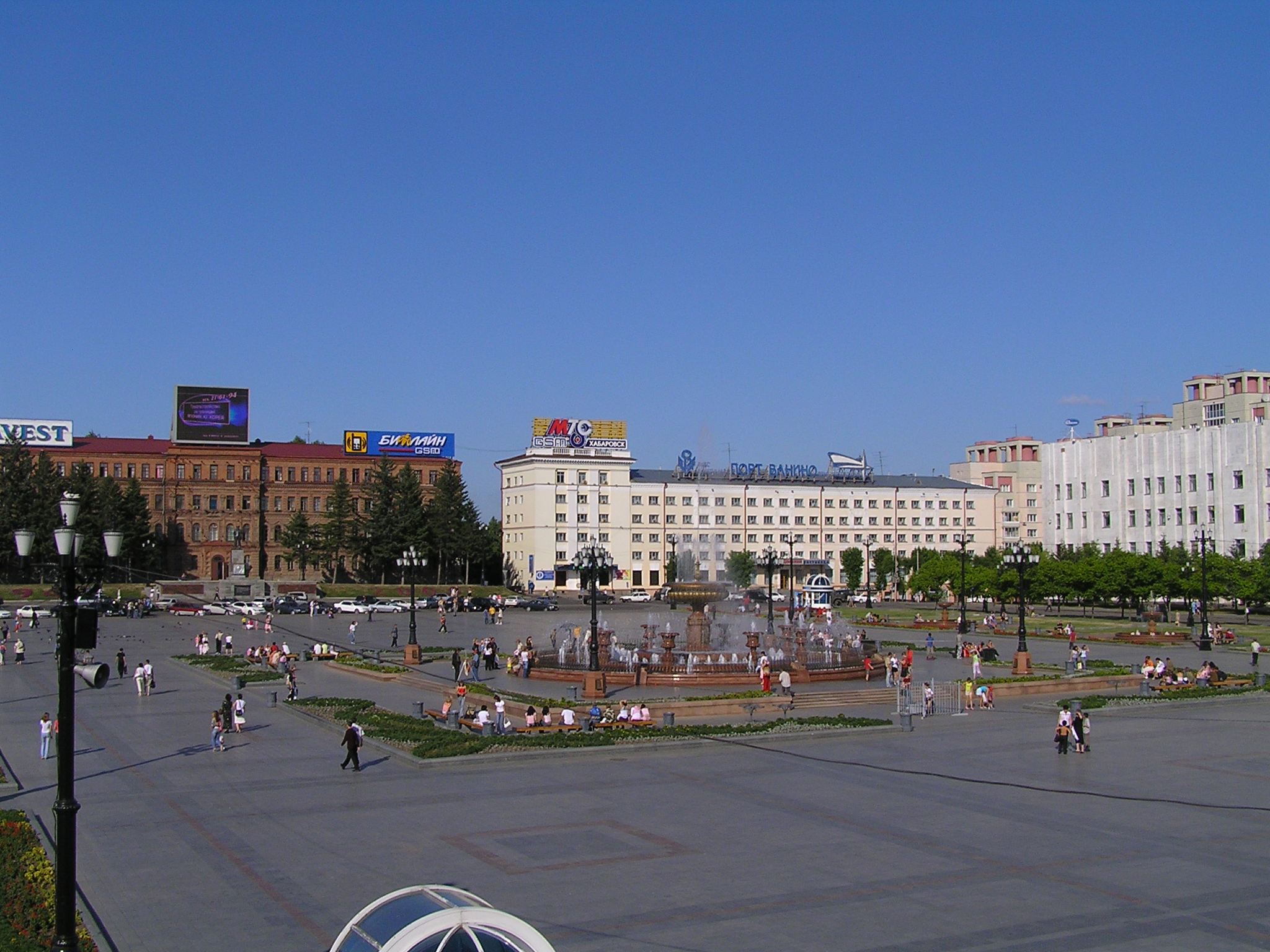 Lenin sq. in Khabarovsk after reconstruction in 1998